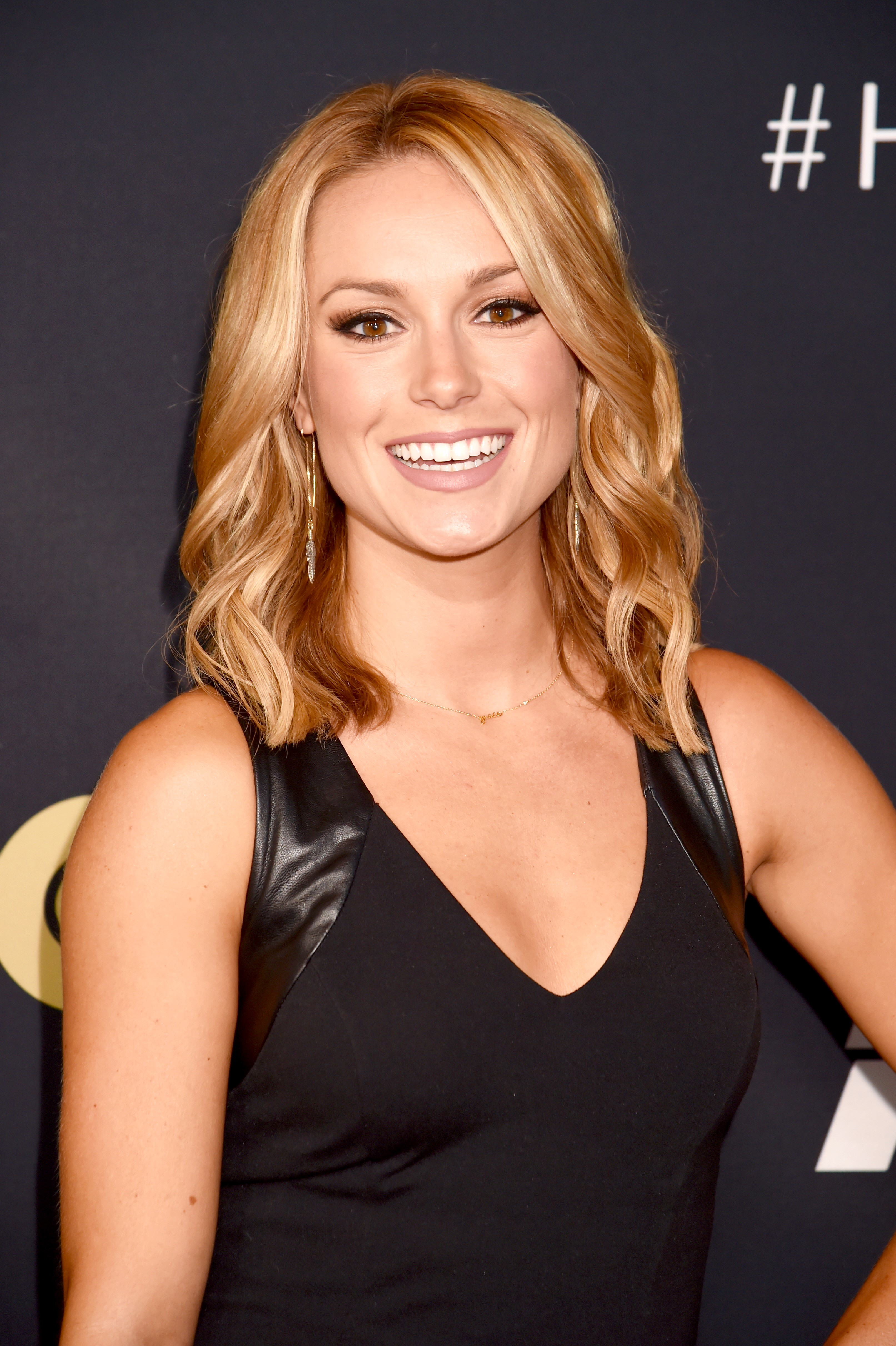 At HBO's Hard Knocks premier in August 2016.